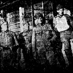 The command post of DBAC near Rõuge, Estonia.